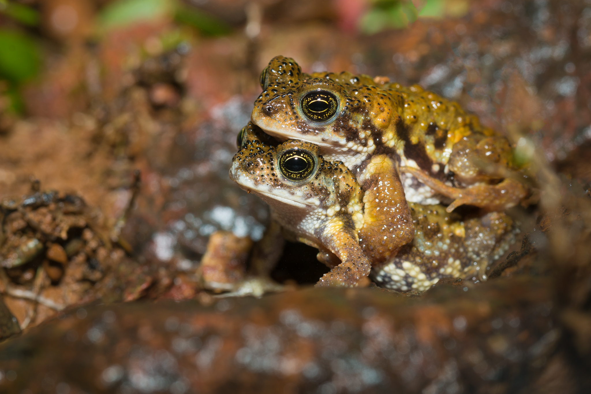 Amboli Tiger Toads mating